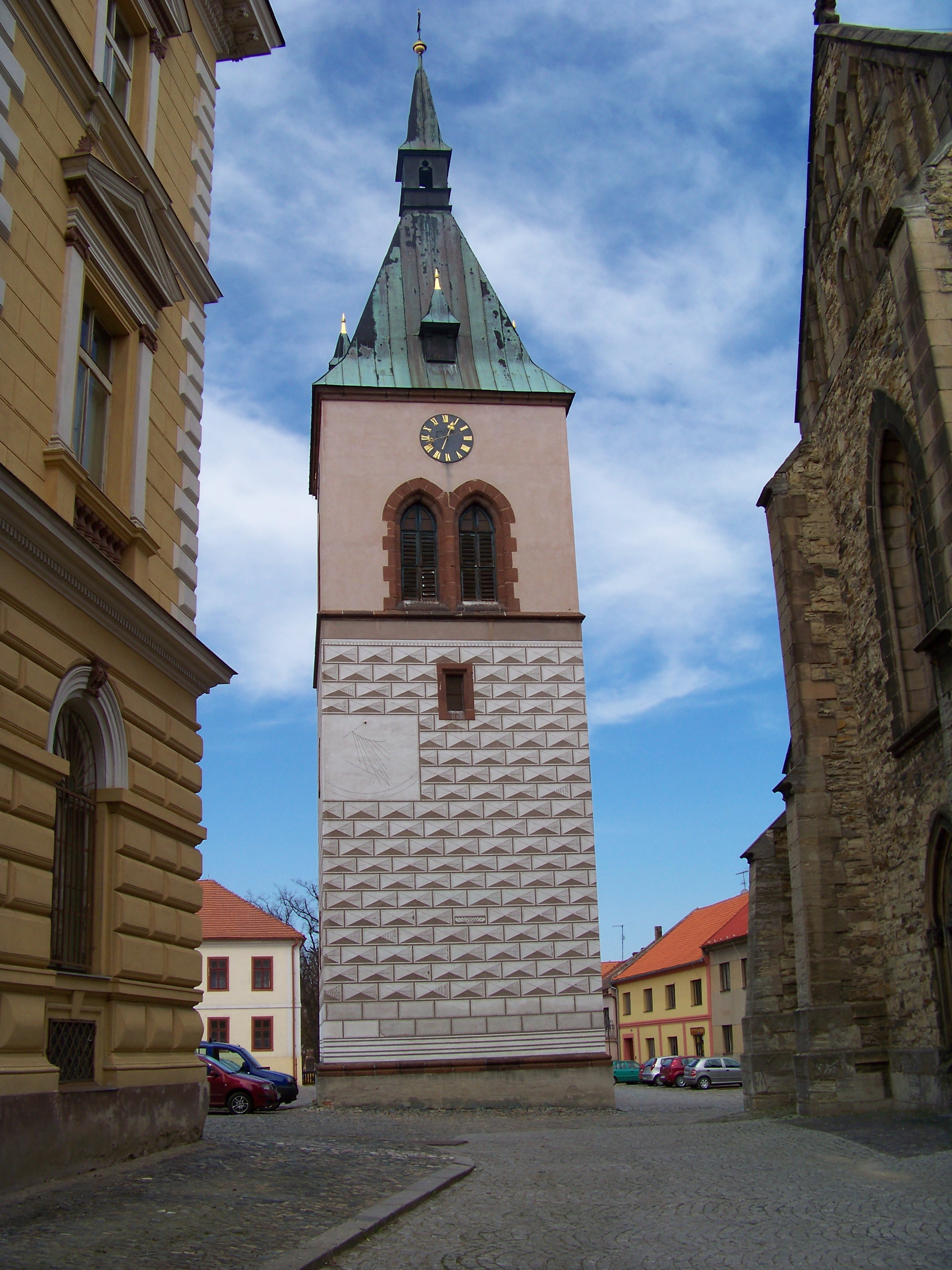 Kouřim, Kolín District, Central Bohemian Region, the Czech Republic. Freedom Square, a bell tower.